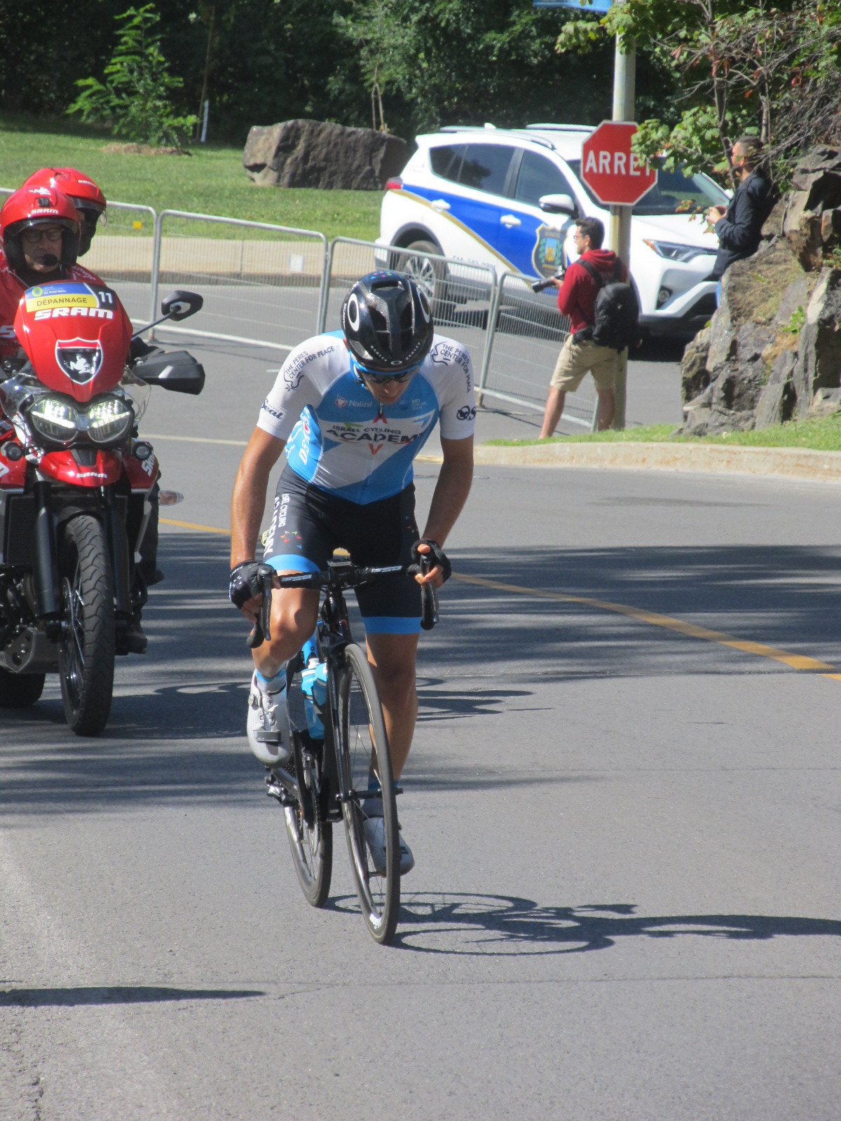 Guy Niv on Chemin de la Polytechnique during the second lap of the Grand Prix Cycliste de Montréal 2018.